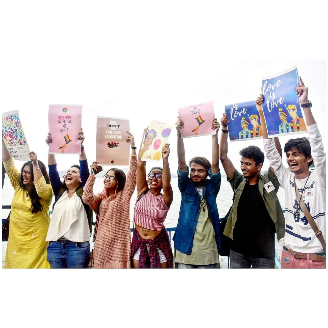 Queermitra LGBT pride